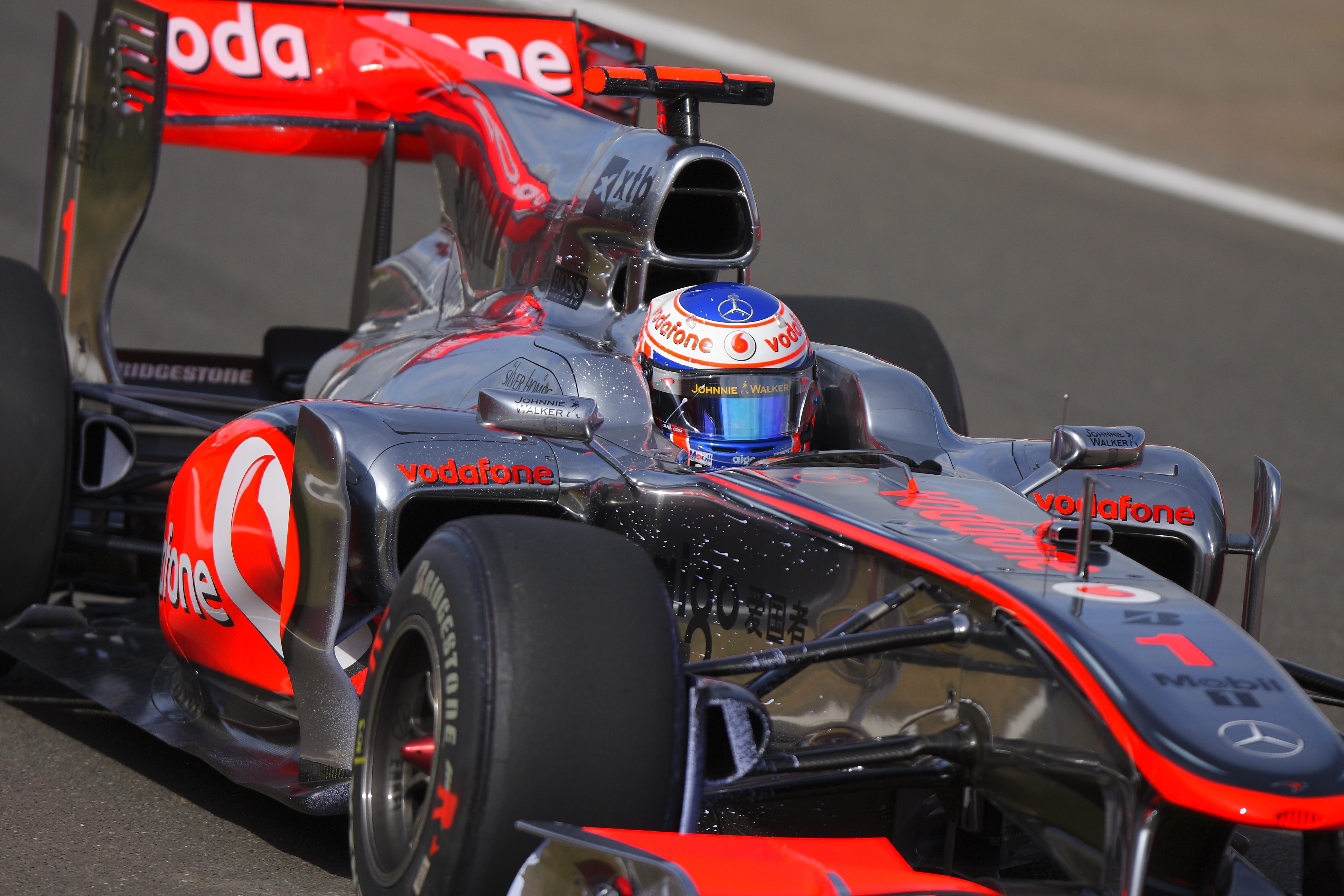 Jenson Button driving for McLaren at the 2010 British Grand Prix. Photographer: Andrew Hoskins.